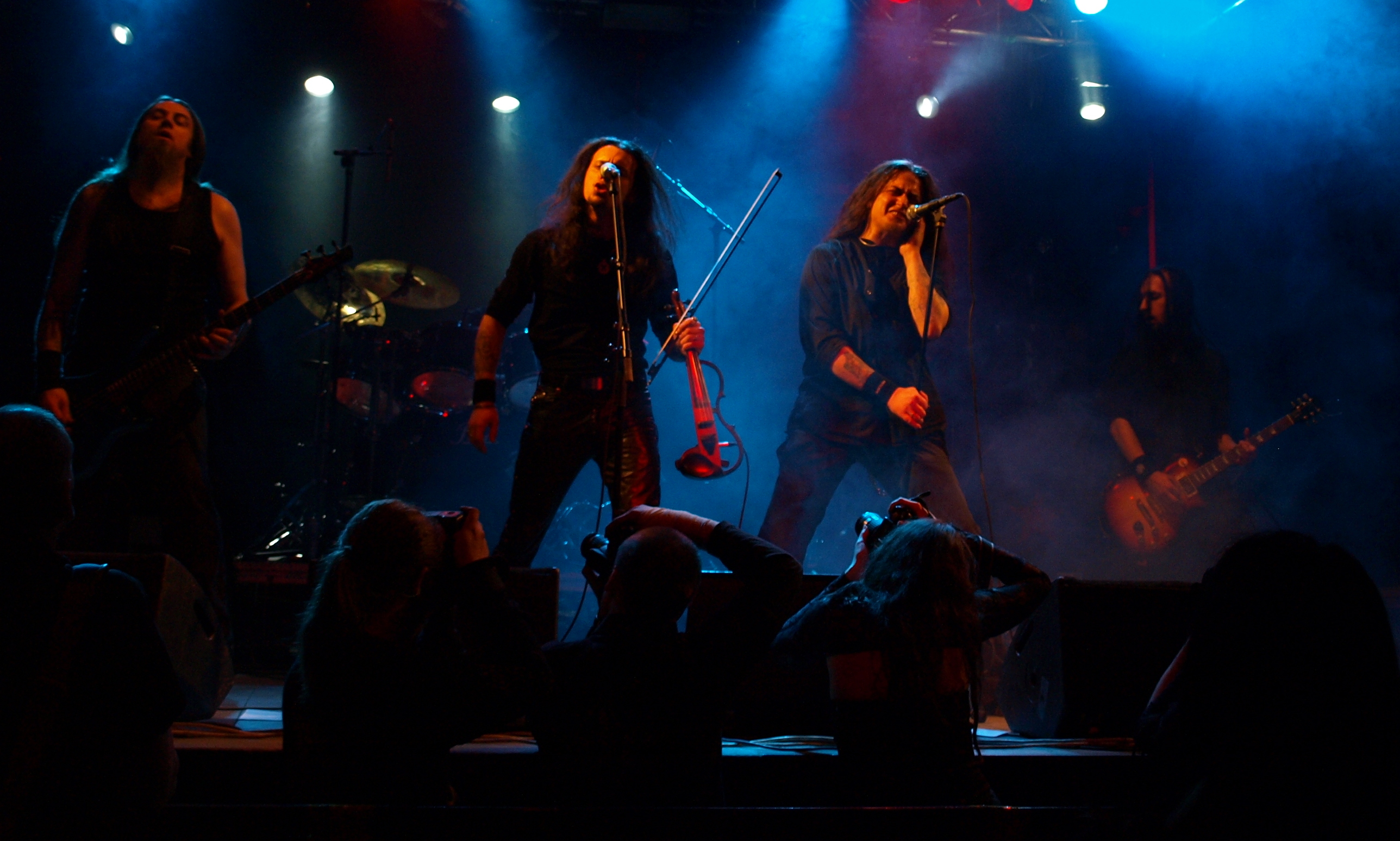 Russian dark metal band Dominia live at Nosturi, Helsinki